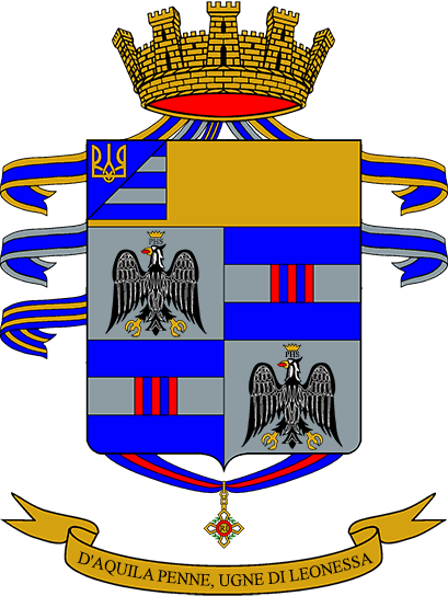 Coat of Arms of the "L'Aquila" Alpini Battalion (and of the 9th Alpini Regiment 1996-2017); Italian Army.